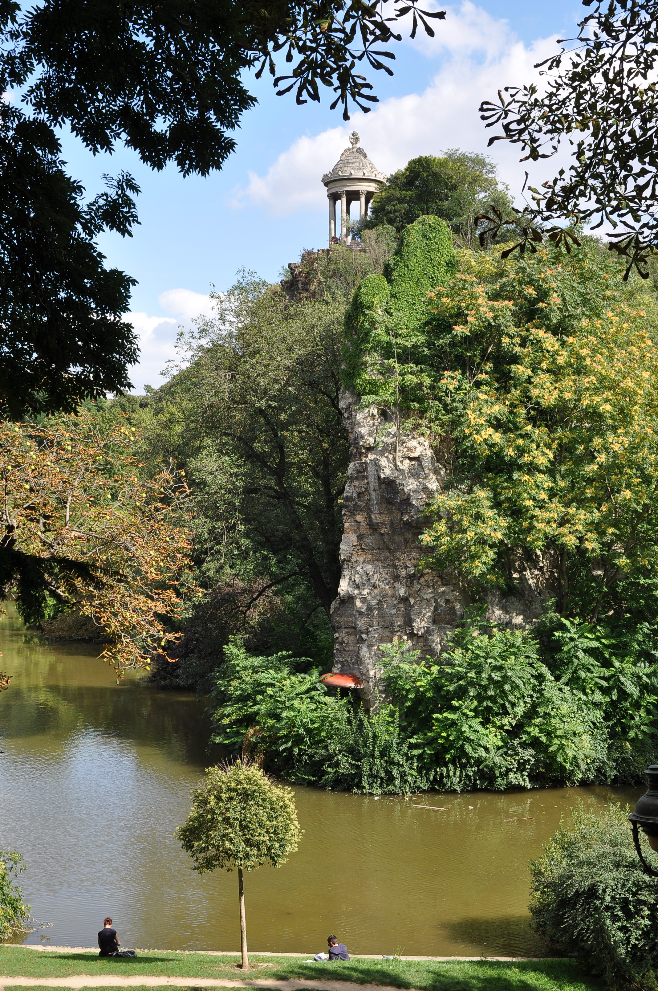 Île du Belvédère in the Buttes Chaumont Garden at Paris 19th district. At the submit of artificial island is installed the gloriette Temple of Sibylle built by Gabriel Davioud et 1869.